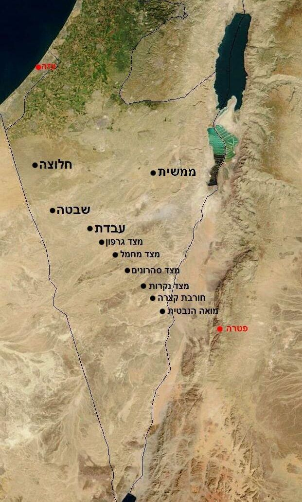 The Incense route on a satellite image of Israel in January 2003.